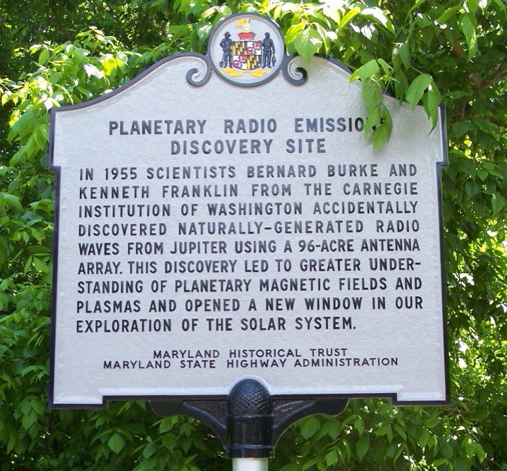 roadside historic marker along River Road near the former Seneca Observatory (Maryland)